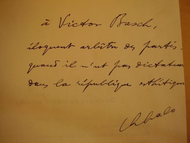 Signature of Charles Lalo on L'expression de la vie dans l'art, Paris, Alcan, 1933. This book was offered to Victor Basch and is now held in the Human and Social Sciences Library Paris Descartes-CNRS